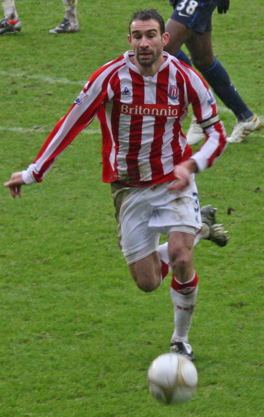 Stoke City FC V Arsenal 52